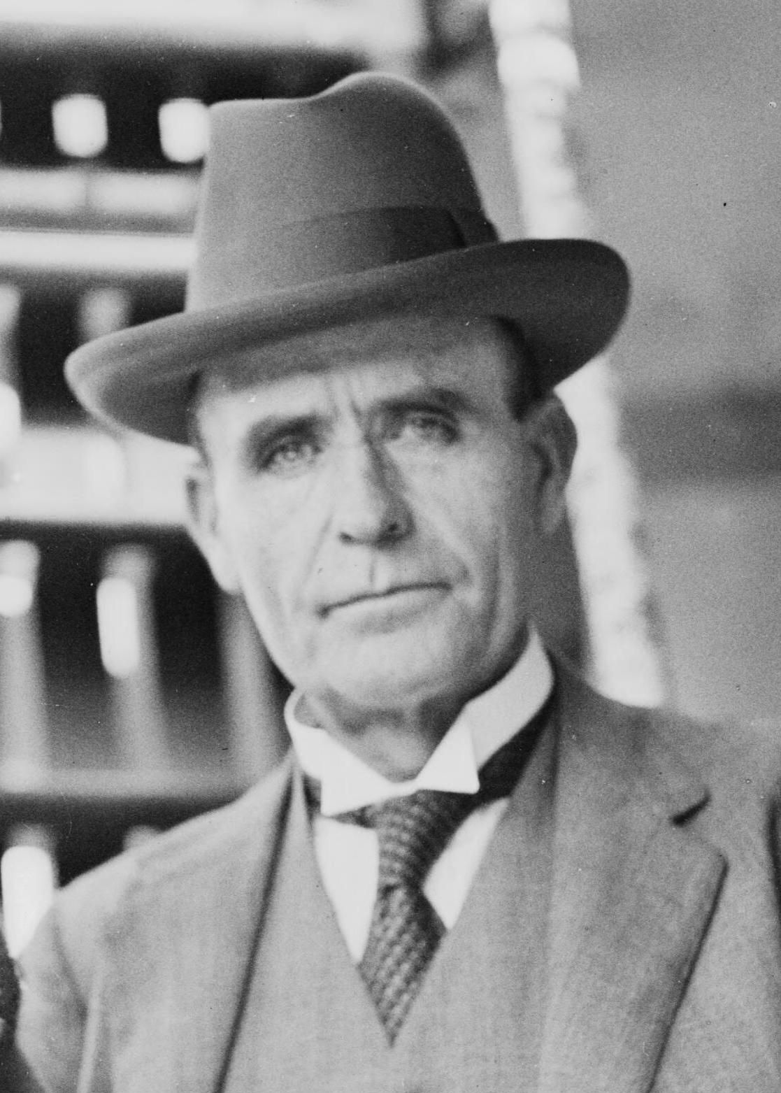 Australian politician William Alexander Watt with his wife Emily